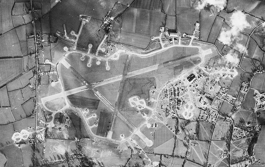 Aerial photograph of Little Staughton airfield looking north, the technical site and barrack sites are to the right, 10 February 1944. Photograph taken by 7th Photographic Reconnaissance Group, sortie number US/7PH/GP/LOC173. English Heritage (USAAF Photography).